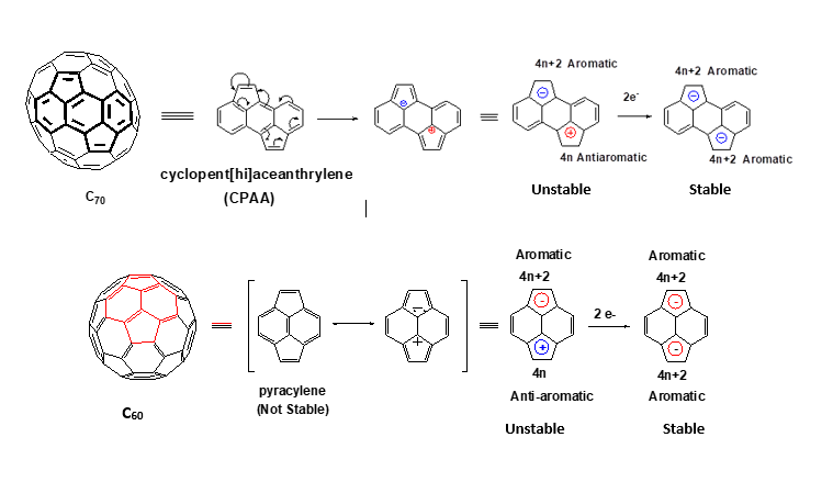 WaseemFig10